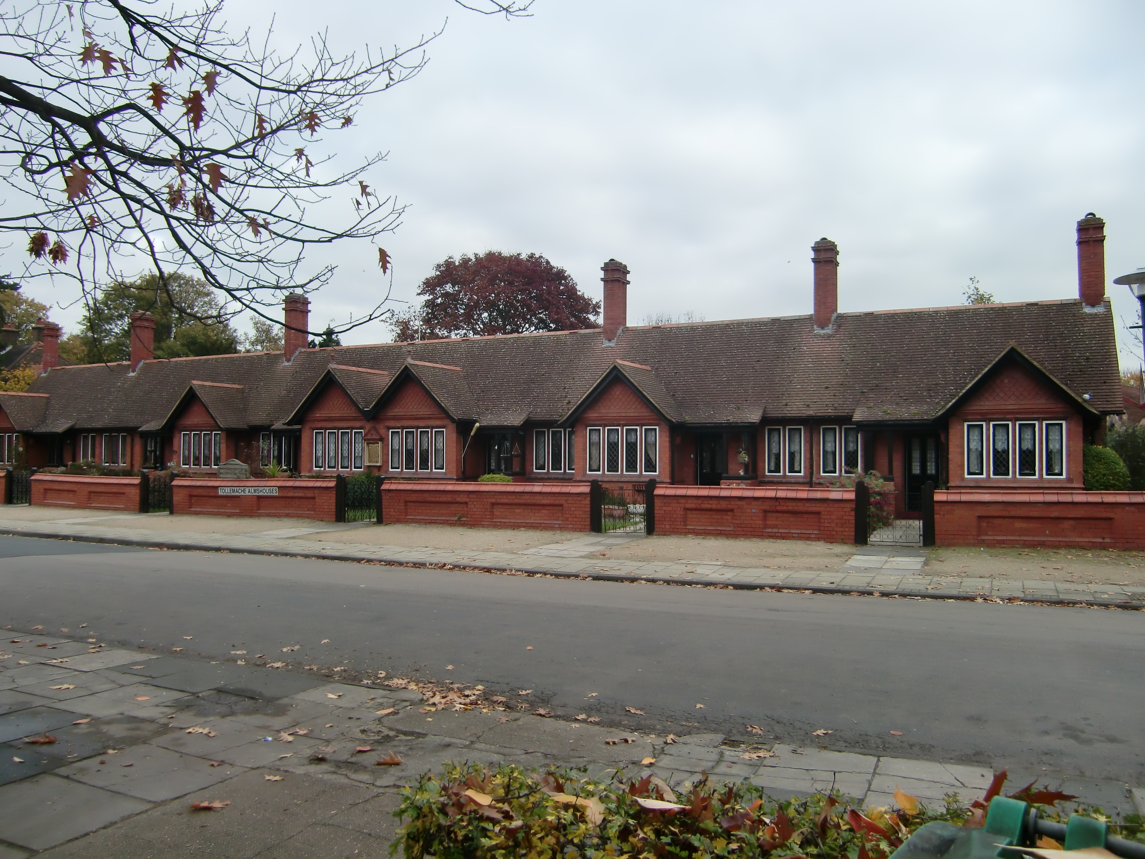 Tollemache Almshouses Ham, Surrey. Built 1892. The commemorative mosaic inscription in the centre of the block reads: "The Algernon Tollemache Almshouses erected by the Honble Mrs Algernon Tollemache to the memory of her husband the Honble Algernon Gray Tollemache Born Sep 24 1805 Died 16 Jan 1892 Erected Sep 1892"